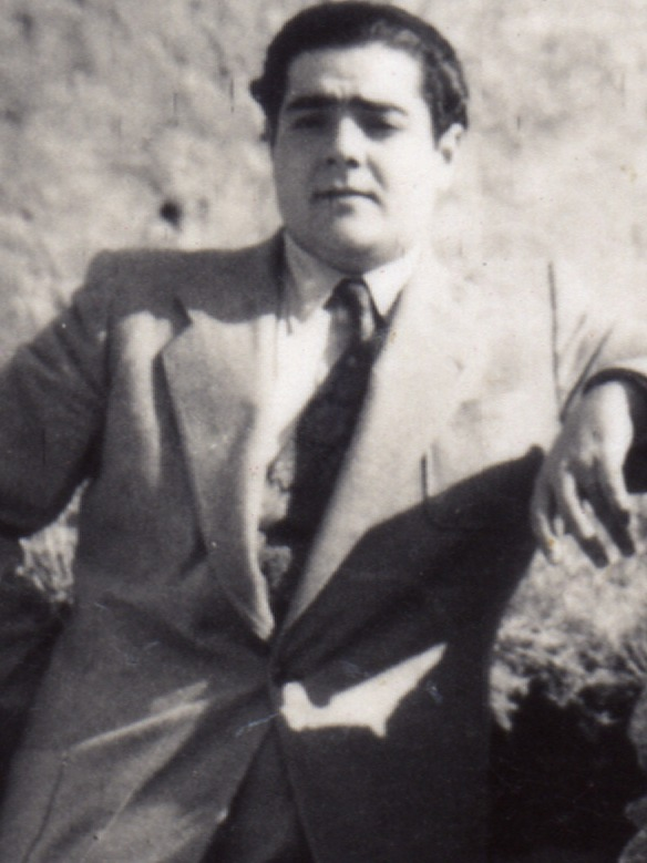 José Célio Mil-Homens Filipe